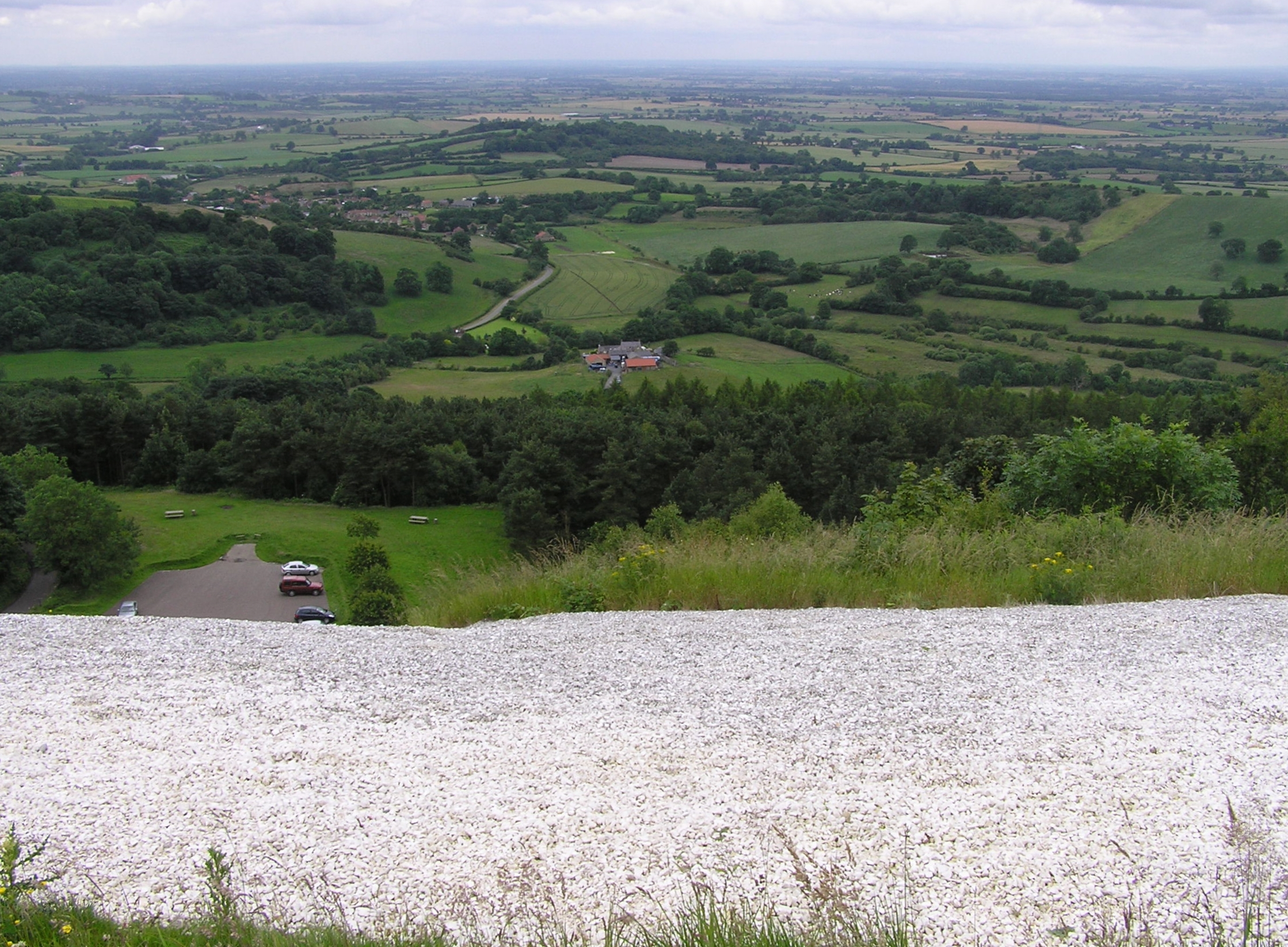 View from the White Horse at Sutton Bank, Yorkshire, England